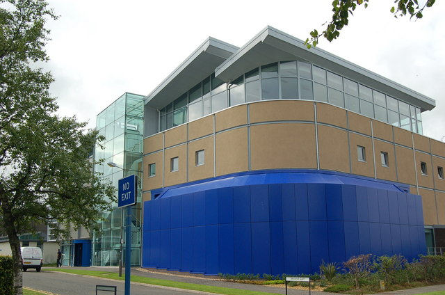 Postgraduate Centre, Heriot-Watt University One of the newest buildings on the Riccarton campus, opened in the spring of 2009.